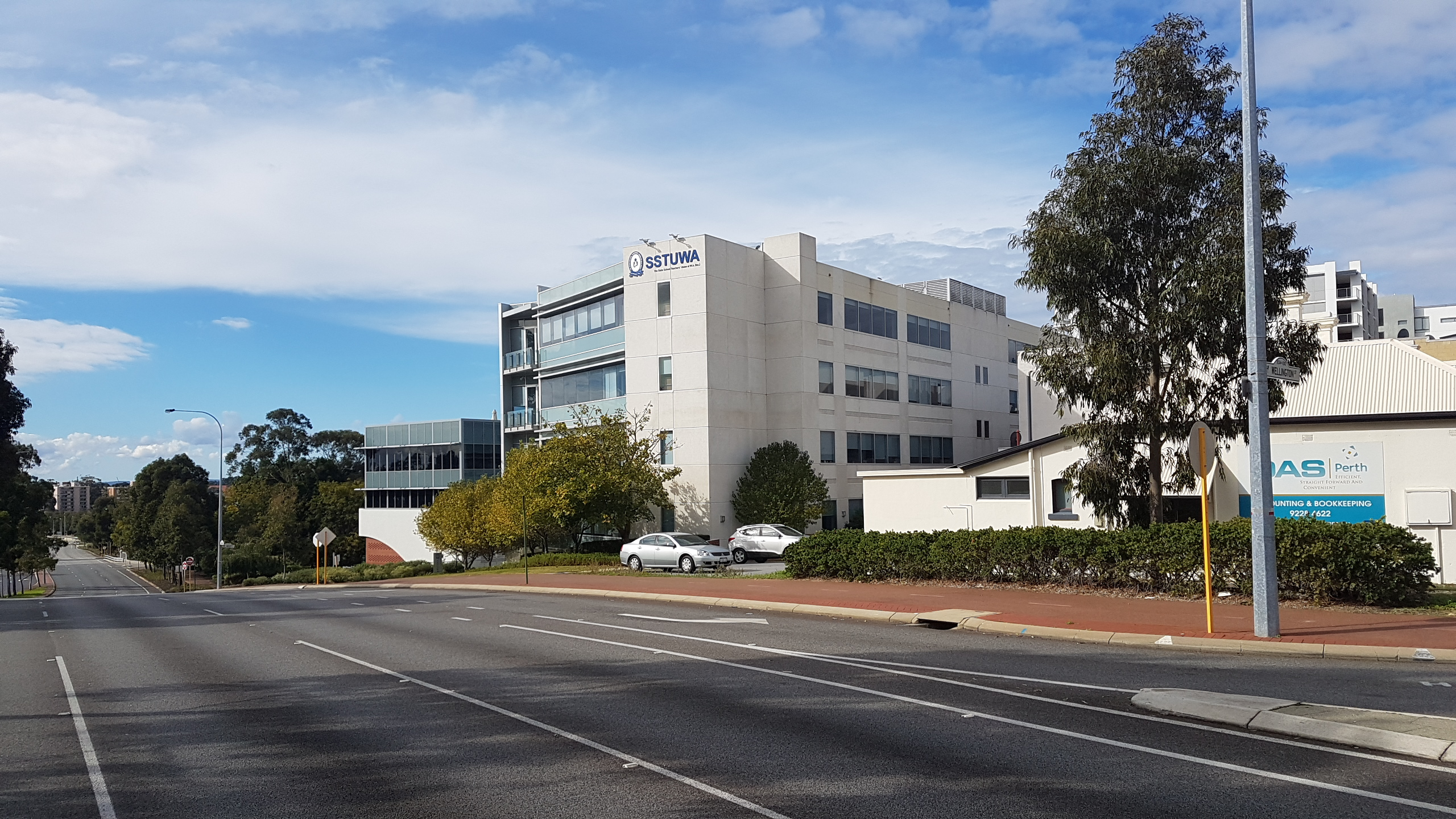 The State School Teachers Union building on Thomas Street, West Perth.